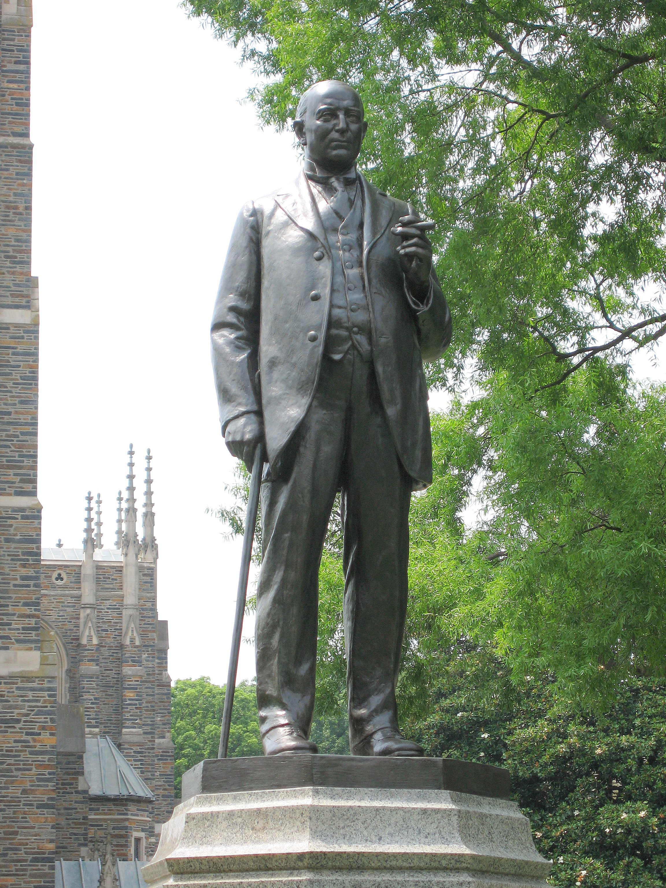 Statue of James B. Duke in front of Duke Chapel on West Campus